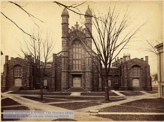 Dwight Hall Circa 1860s